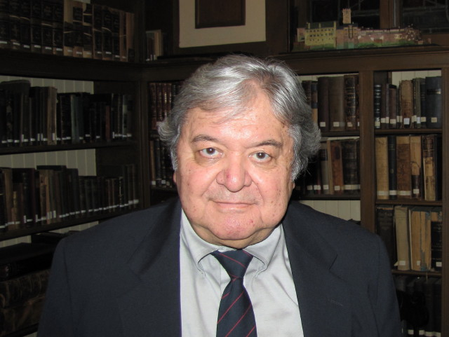 Picture of Eric W. Gritsch, taken in the library of Zion Lutheran Church, Baltimore